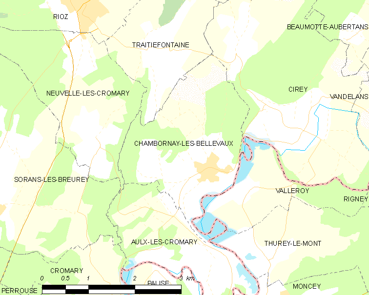 Map of French municipality